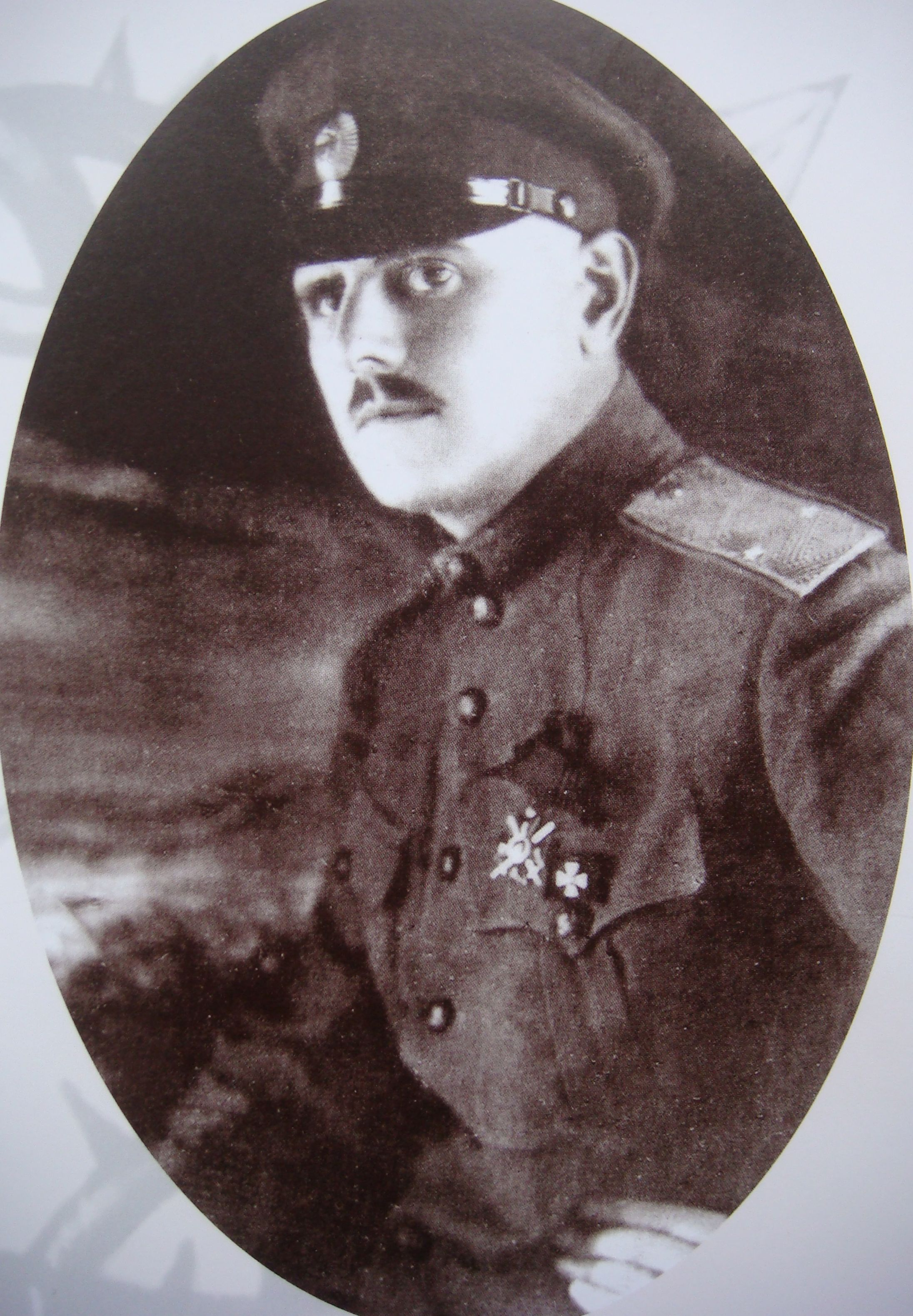 White Russian Major General Vladimir Nikolaevich Vygran